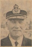 Rear Admiral (later Vice Admiral) Bertil Berthelsson